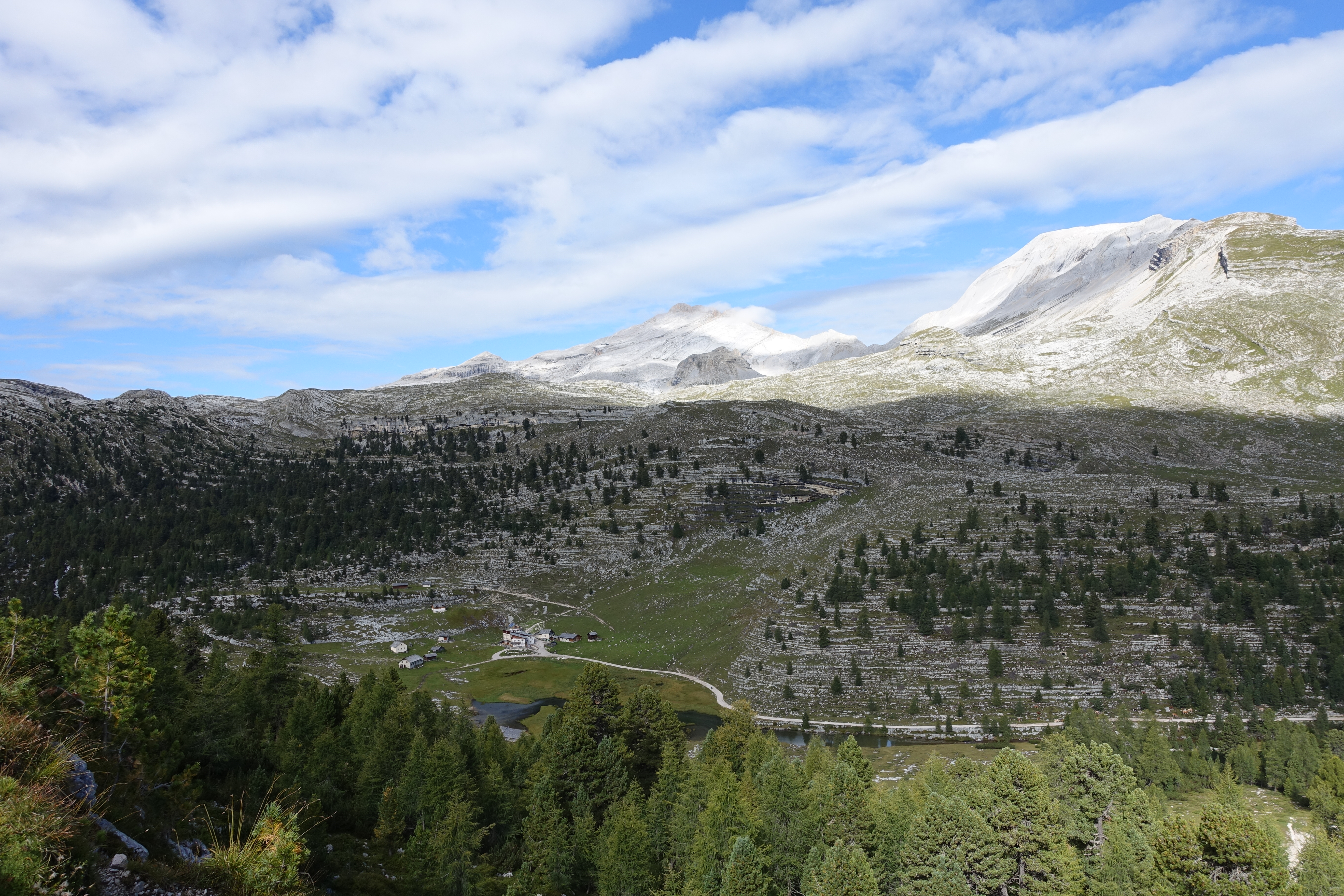 39030 Mareo, Province of Bolzano - South Tyrol, Italy